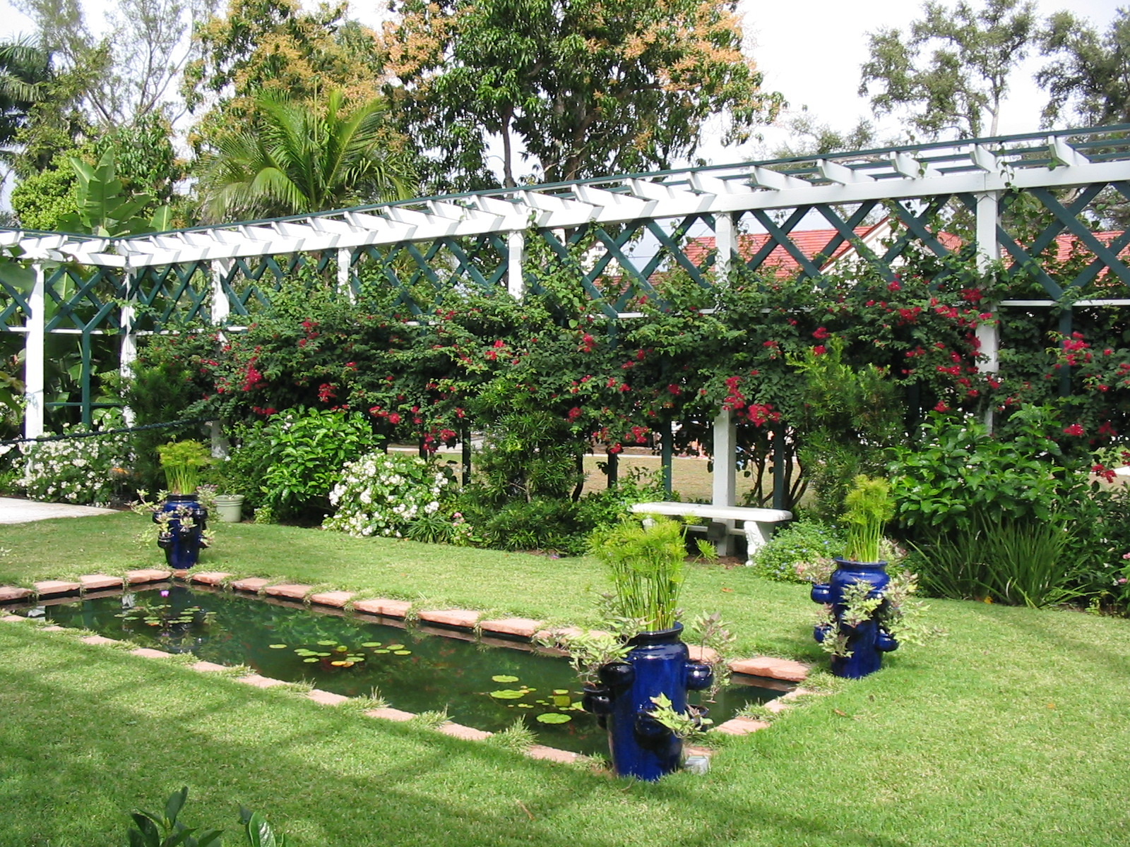 Moonlight Garden, Edison and Ford Winter Estates, Fort Myers, Florida, USA. designed by Ellen Biddle Shipman for Mina Miller Edison photographed by me, January 2, 2007